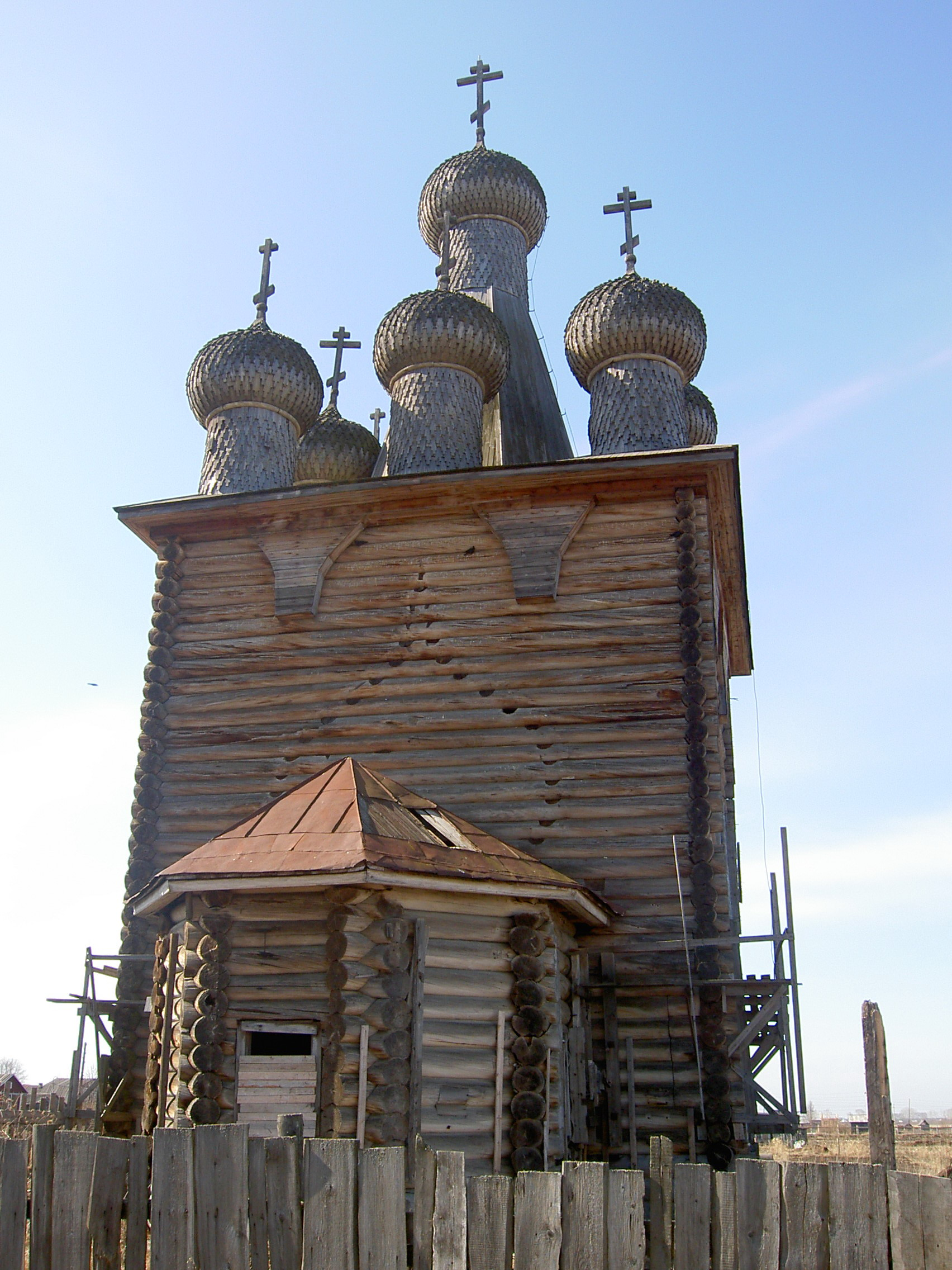 Church of the Intercession in Zaostrovje (near Arkhangelsk), 1688, Russia